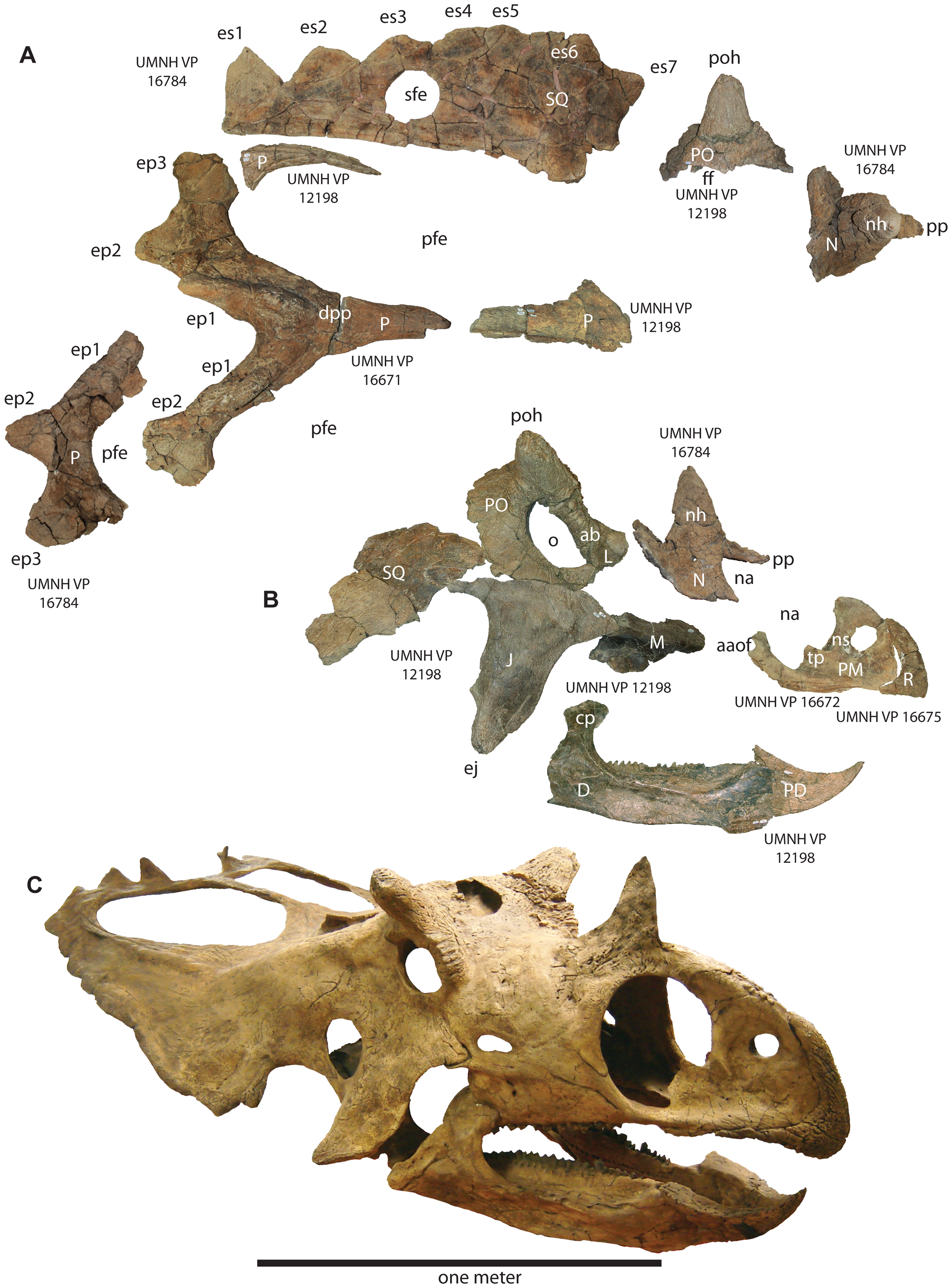 Select craniofacial elements of Utahceratops gettyi n. gen et n. sp. A. Various cranial elements in dorsal view. B. Craniofacial skeleton in lateral view. The orbital region has been photo-reversed for consistency. C. Cast of restored skull in oblique view. Scale bar represents one meter. Abbreviations: aaof, accessory antorbital fossa; ab, antorbital buttress; aof, antorbital fenestra; D, dentary; dpp, dorsal parietal process; cp, coronoid process; ej, epijugal horn; ep, epiparietal position 1–3; es, episquamosal; ff, frontal fontanelle; J, jugal; L, lacrimal; ltf, laterotemporal fenestra; M, maxilla; N, nasal; na, naris; nh, nasal horncore; ns, narial strut; o, orbit; P, parietal; PD, predentary; pfe, parietal fenestra; PM, premaxilla; PO, postorbital; poh, postorbital horncore; pp, premaxillary process of nasal; R, rostrum; sfe, squamosal fenestra; SQ, squamosal.